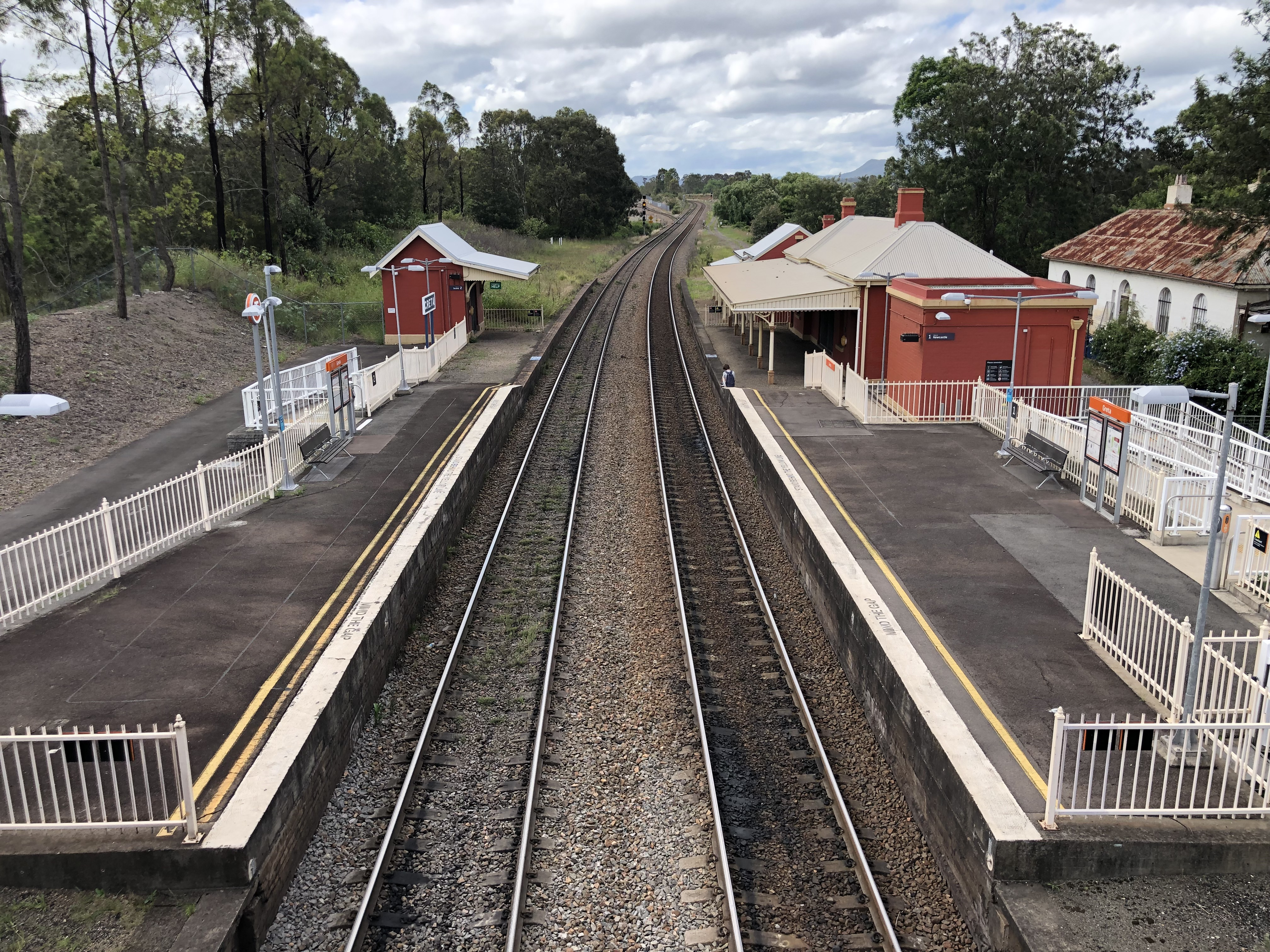 Greta station taken by MrTwig